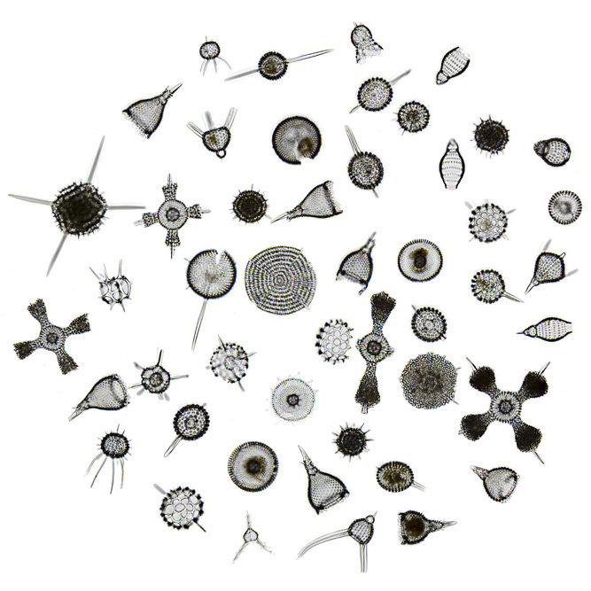 Radiolaria